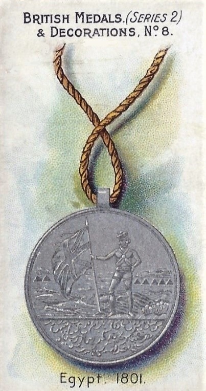 Medal awarded to Honourable East India Company soldiers for Egypt campaign of 1801, depicted on Taddy cigarette card